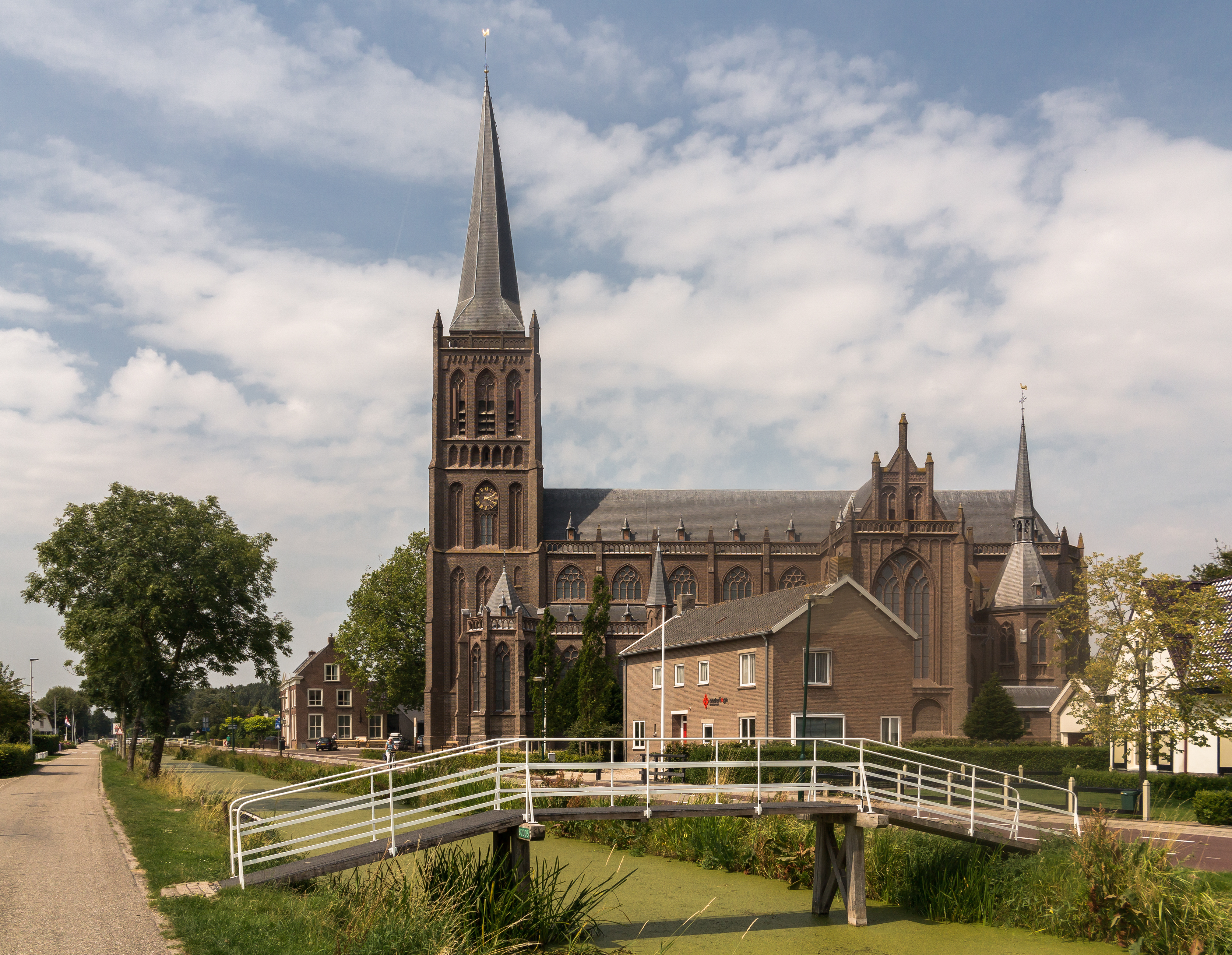 Schalkwijk, church: de Sint Michaëlkerk